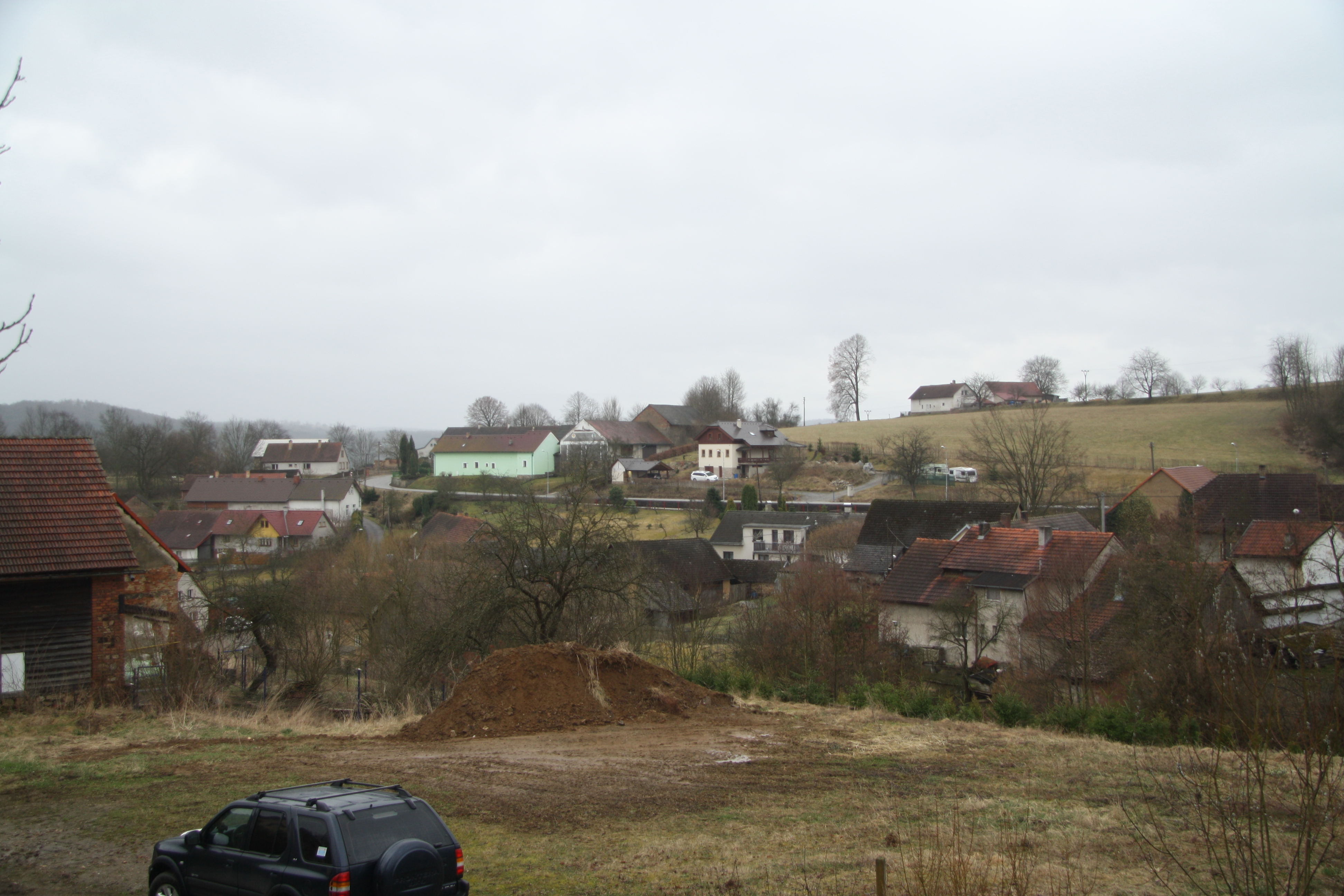 Overview of Všechlapy, Benešov District.